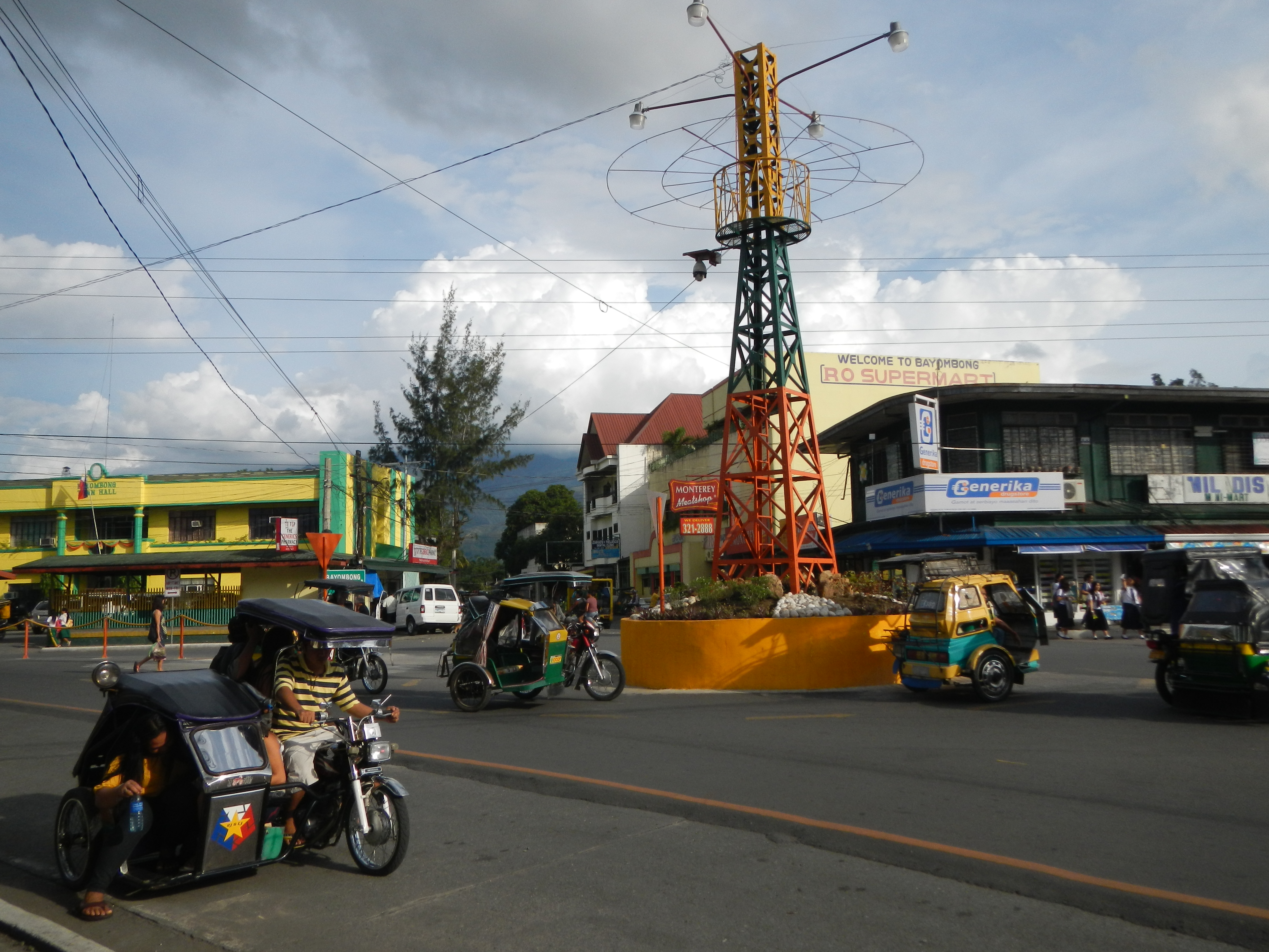 Upload Wizard photos of -- Purok 2, Barangay DTM, Andres Bonifacio and Heroes Shrine, Rizal Park, Centro, downtown, jeep and tricycle terminal, [1] Bayombong, Nueva Vizcaya & Saint Dominic Cathedral of Bayombong, Bayombong, Nueva Vizcaya[2] located at the heart of the town with the best sounding church bells made of bricks and rare church antiques [3] Bayombong (F-1874) Catholic Rectory Bayombong, 3700 Nueva Vizcaya (includes municipality of Ambaguio), Titular: St. Dominic de Guzman, August 8 Founder: Dominican Friars Parish Priest: Father Teodoro L. Lazo Parochial Vicar: Father Victor M. Abijay.[4] Coordinates: 16°29'1"N 121°9'2"E [5] belongs to the [6] Roman Catholic Diocese of Bayombong [7] [8] - Bayombong, Nueva Vizcaya[9].